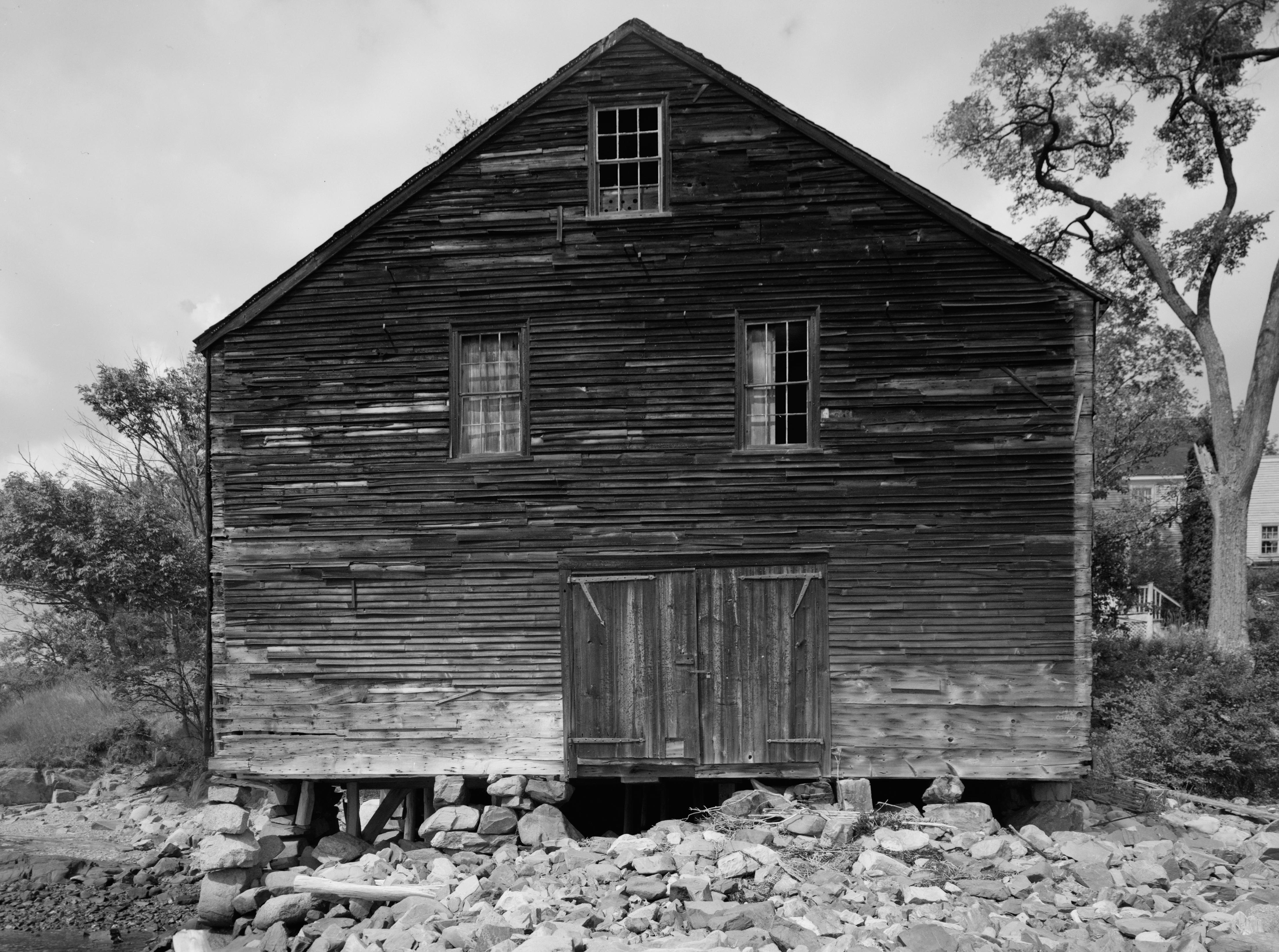 Southern front of the Gerrish Warehouse, located near Pepperrell Cove off State Route 103 in Kittery, Maine, United States. Built in 1710, it is listed on the National Register of Historic Places. The building has been demolished.